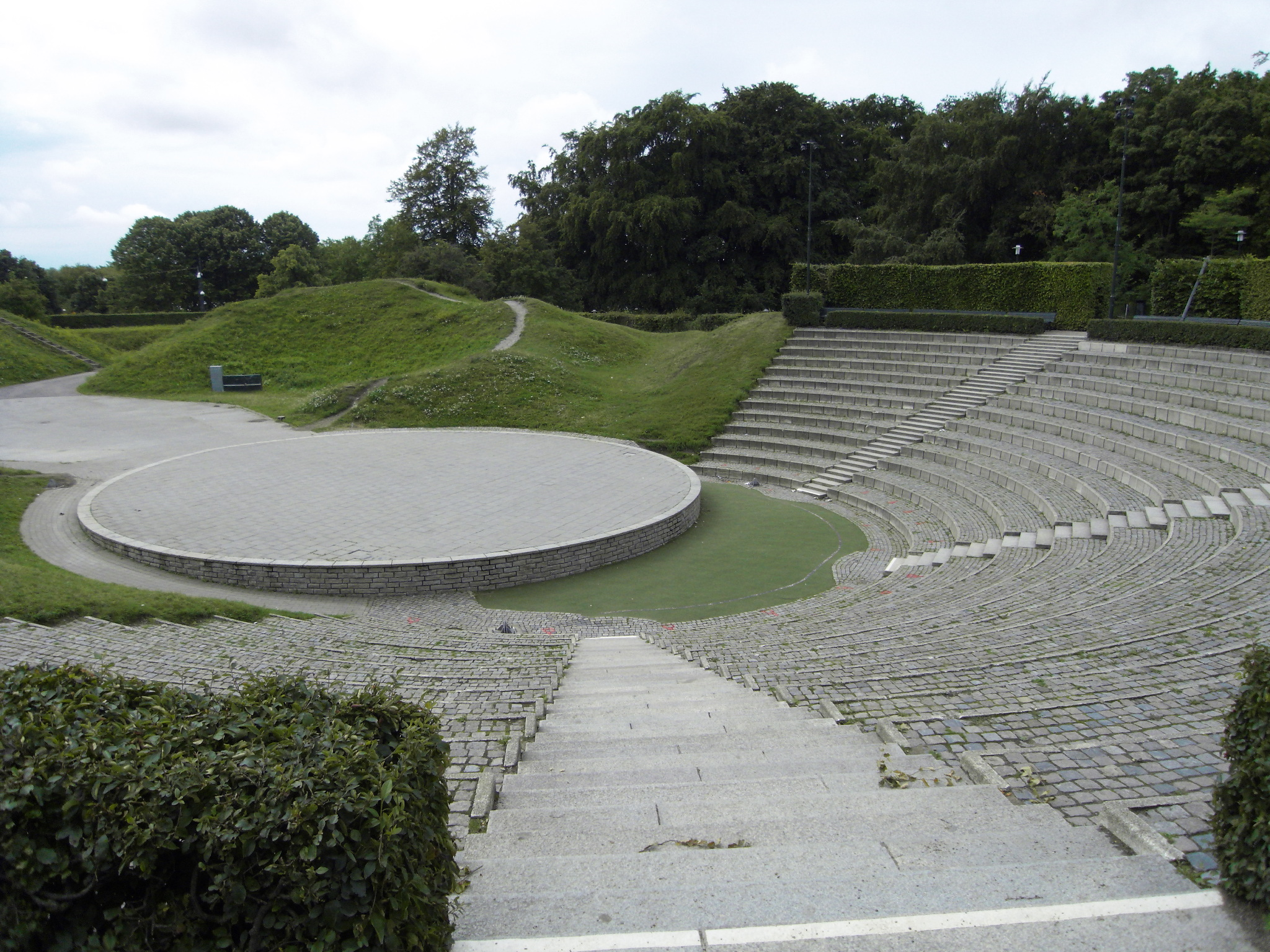 This is the Pildamm Theatre (Swedish Pildammsteatern), an amphitheater in the Pildamm Park (Pildammsparken) in the city of Malmo.